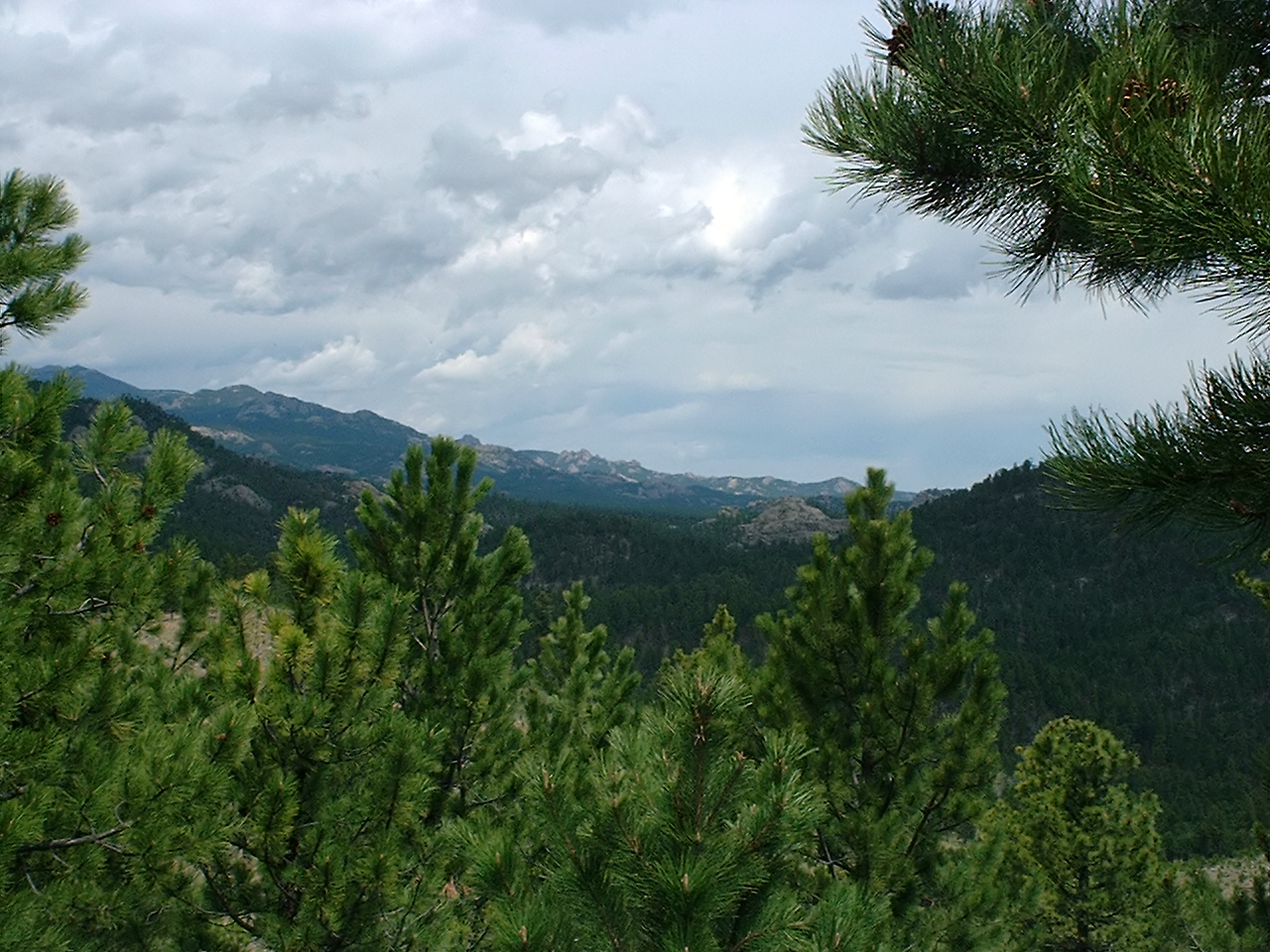 View of the Black Hills from within Custer State Park, South Dakota, US. Photograph taken May 2002 by Kelly Martin.